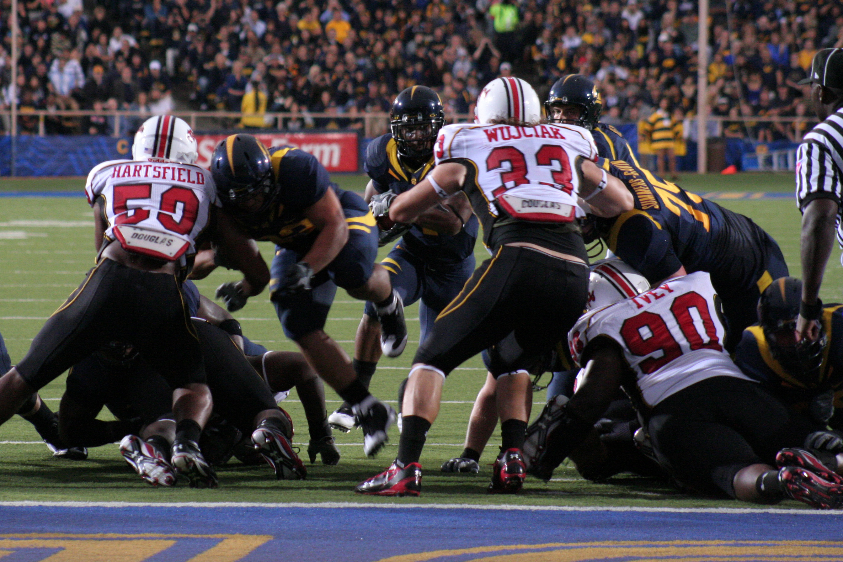 Maryland makes a goal line stand against California in Berkeley. Running back Jahvid Best is about to score a 2 yard touchdown.